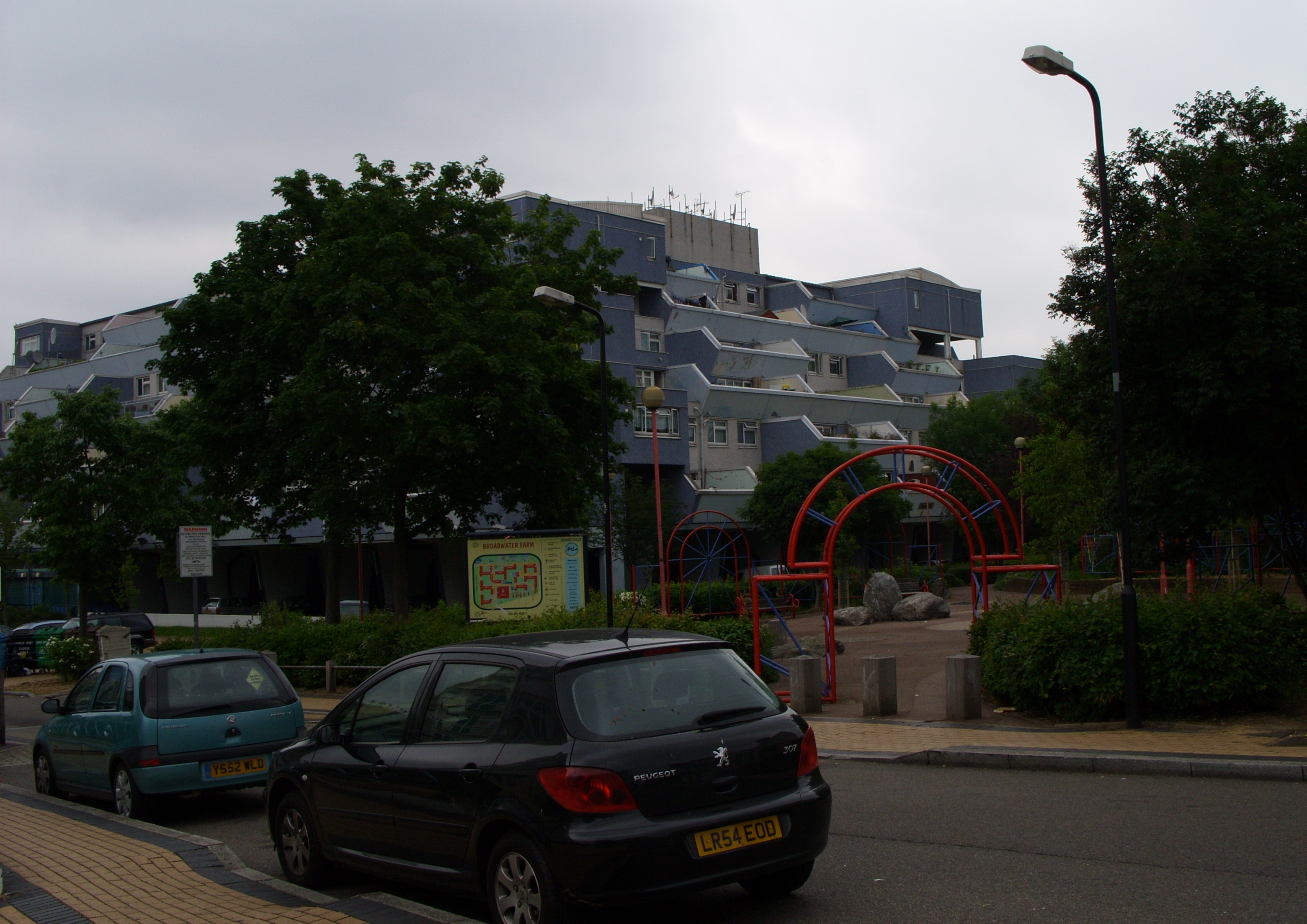 Tangmere building, Broadwater Farm, London N17